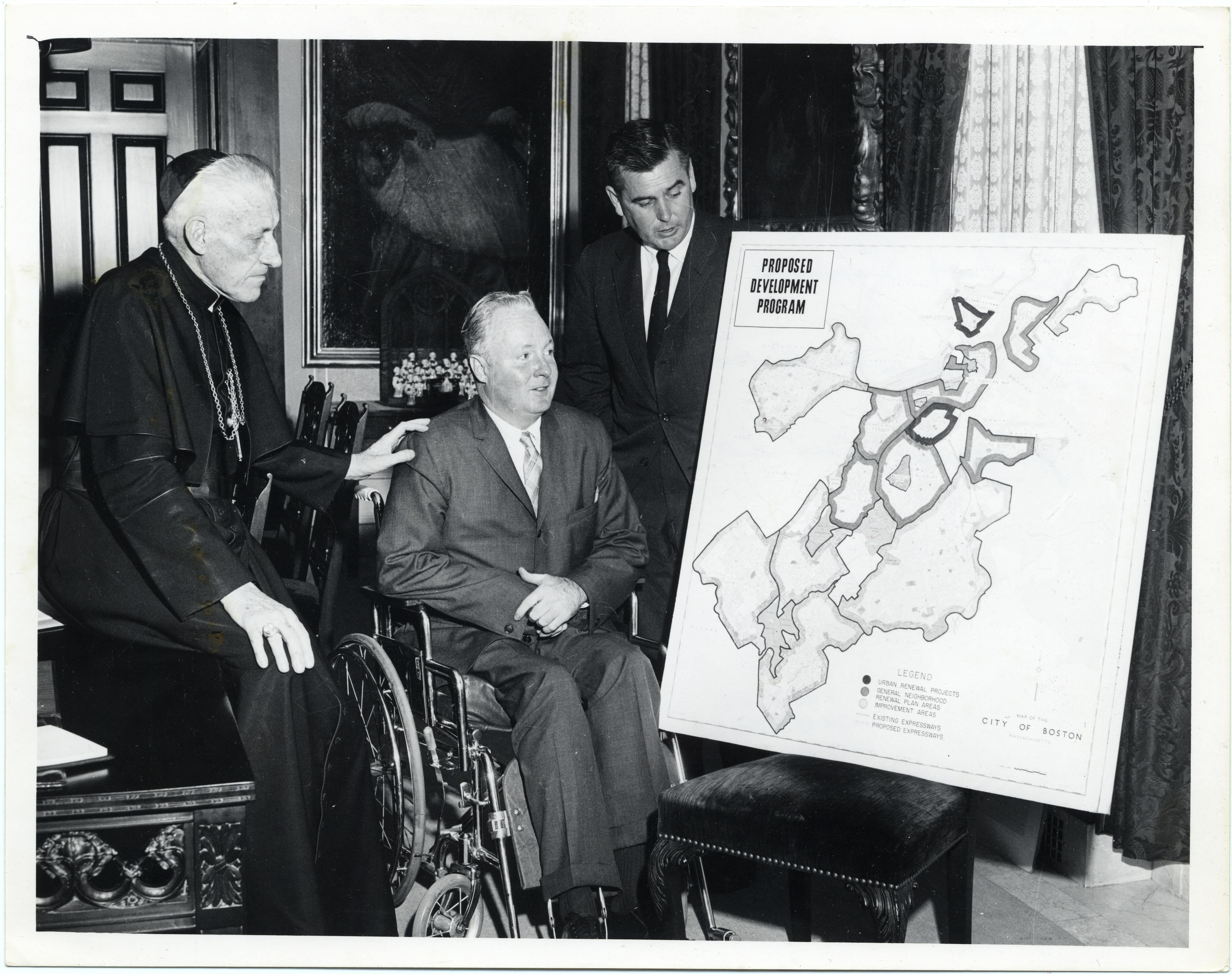 Title: Cardinal Richard Cushing, Mayor John F. Collins, and Boston Redevelopment Authority Director Edward Logue view proposed "new look" for Boston Creator: Jack O'Connell for the Boston Globe Date: circa 1960-1968 Source: Mayor John F. Collins records, Collection #0244.001 File name: 244001_0863 Rights: Rights status not evaluated Citation: Mayor John F. Collins records, Collection #0244.001, City of Boston Archives, Boston